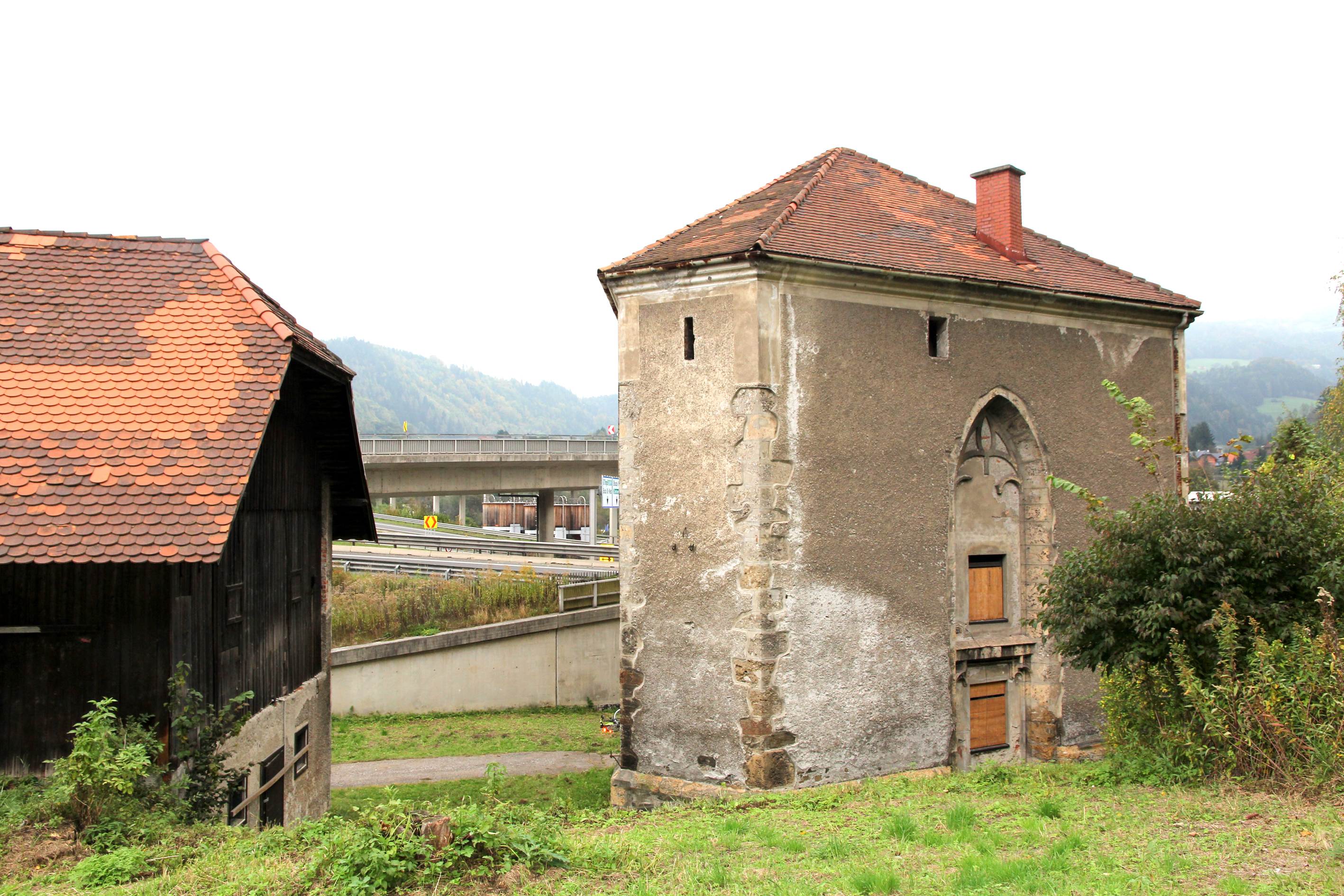 Bruck an der Mur - ehem. Heiligen-Geist-Kapelle Dieses Bild wurde anlässlich des österreichischen Tags des Denkmals 2012 in der Steiermark eingereicht.